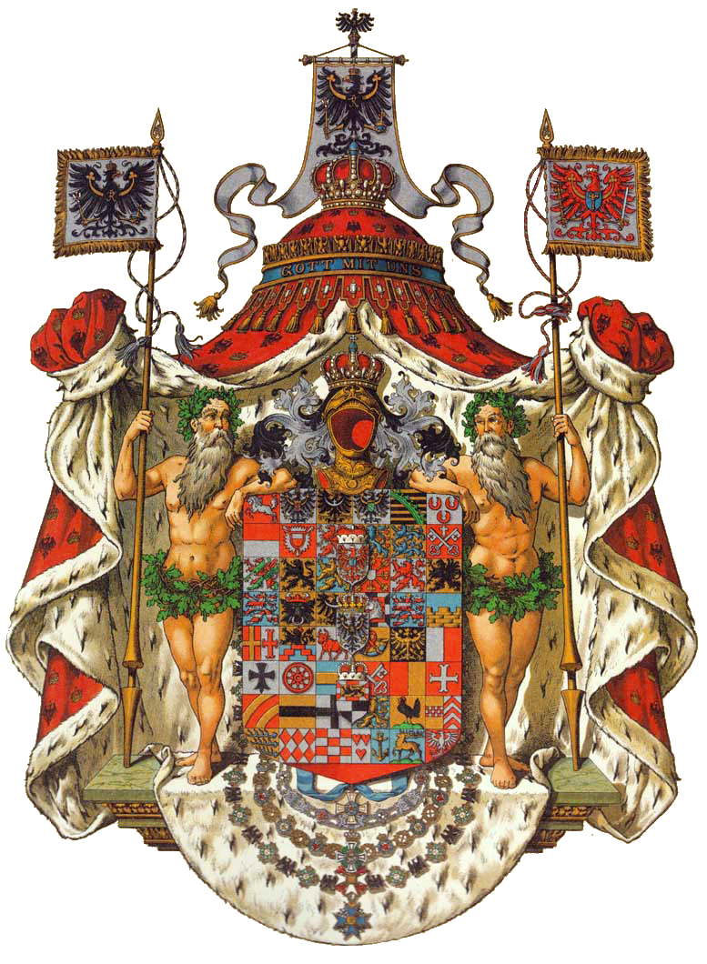 Greater coat of arms of Prussia used when part of the German Empire. Note the inclusion of the subcoats for Holstein and Schleswig (both in the second row), identifying this coat of arms as no earlier than 1867.